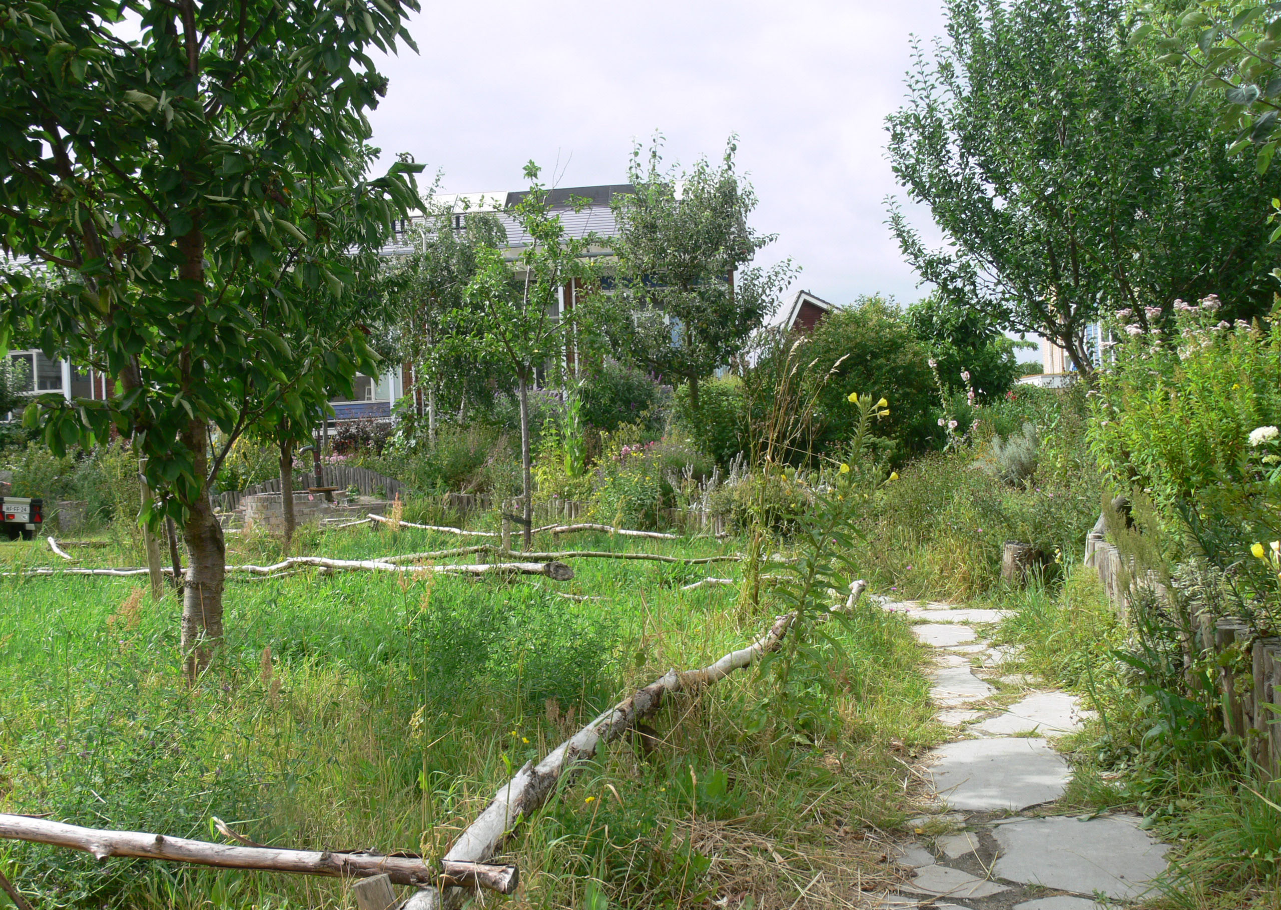 Semi-public garden in E.V.A. Lanxmeer district (a "green distric" named Lanxmeer, built at Culemborg, The Netherlands), which is a recent (1994-2009) district (semi-public eco-building) of approximately 250 ecological houses, several offices and a urban farm. The project is based on "Sustainable Implant" with a spatial combinaison of natural systems, technical approach of integrated waste (wastewater) / energy system and écological and social purposes, for an urban neighborhood. The district is in an ecologically sensitive area (former drinking water extraction and retention area). The conception of this district is based on permaculture, and organic design, a small biogas installation (able to treate black water and organic waste and garden & park waste), a combined Heat Power. Some houses are in closed greenhouse. A semi-public building (the ‘EVA Centre) should yet be made, based on the Living Machine concept.